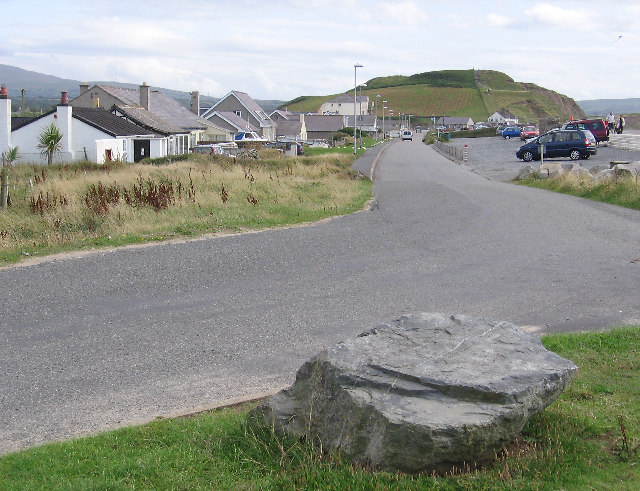 Dinas Dinlle. A small seaside resort south of Caernarfon with a hill fort at one end and a long, even and wheelchair-friendly promenade, a couple of cafes and holiday accommodation.